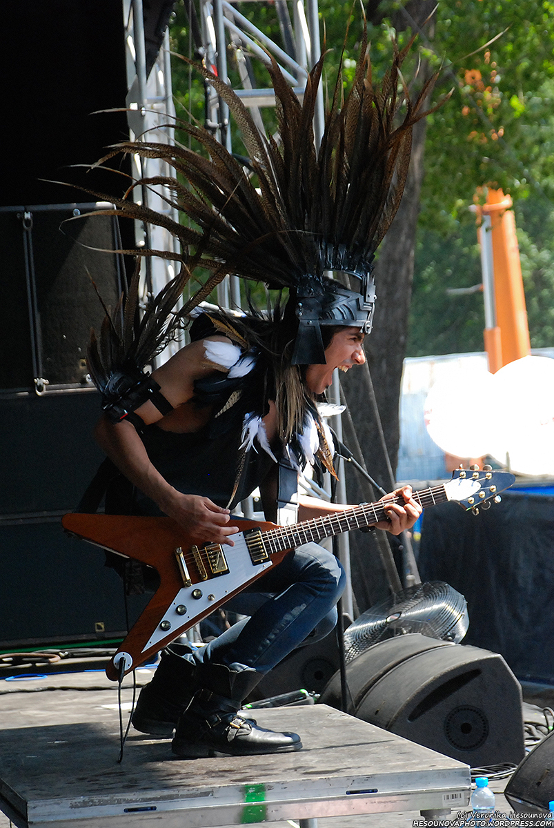 Neonfly performing at biggest Czech metal festival, Masters of Rock